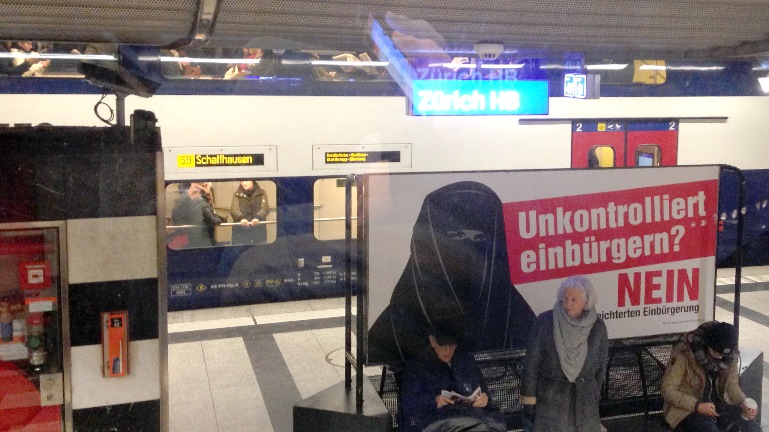 anti islam picture in switzerland